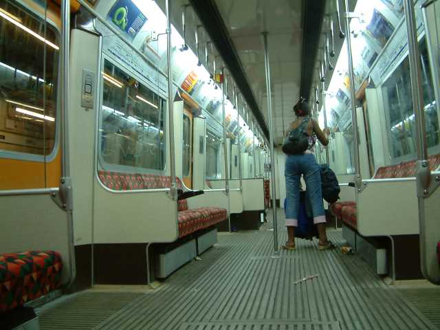 District Line carriage - internal - night - London - 240404